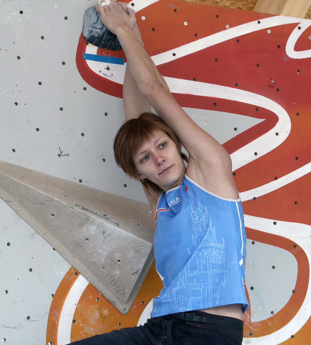 Anna Galliamova during the semi-finals at the IFSC Boulder Worldcup Vienna 2010.